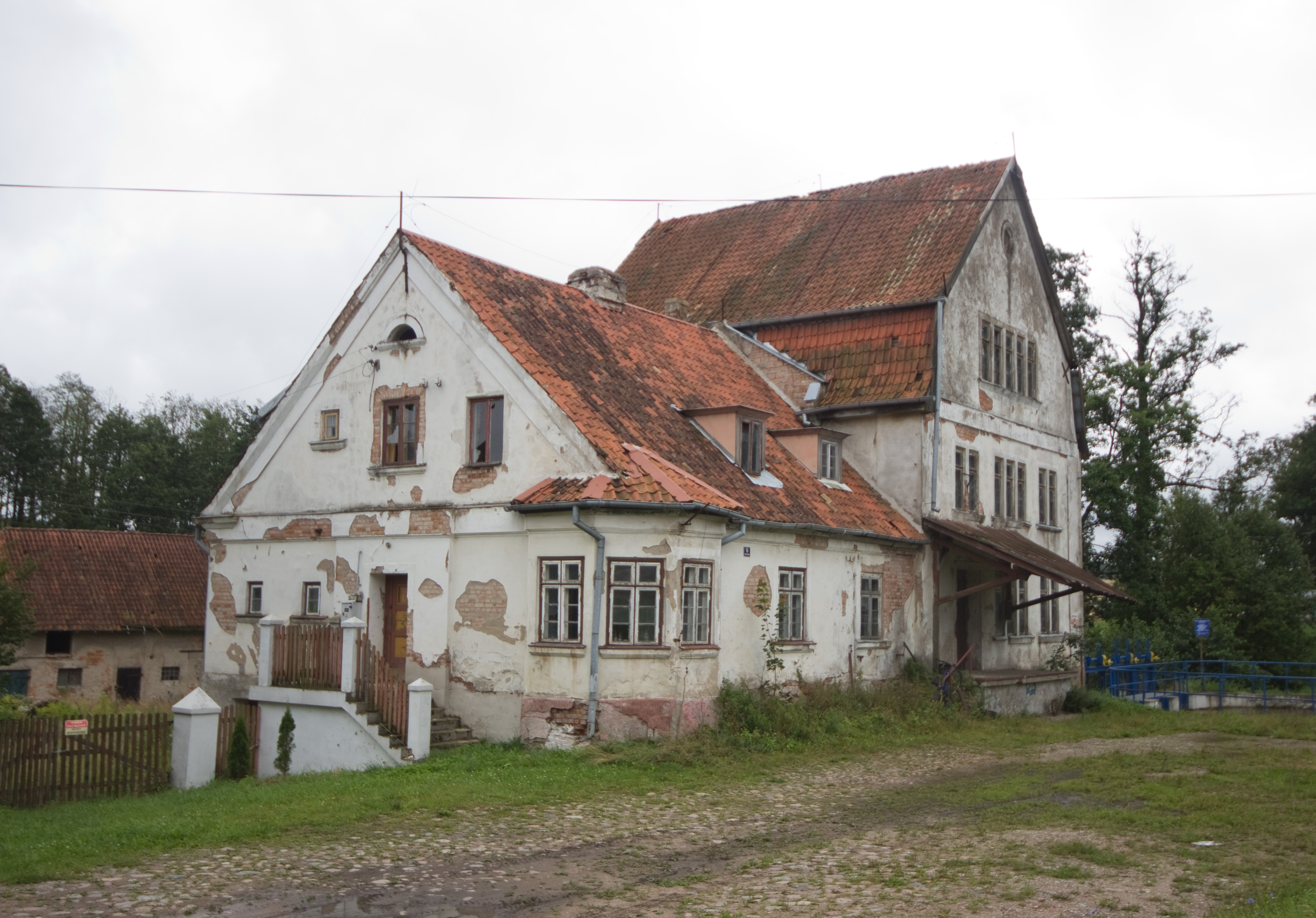 Sedranki, gmina Olecko, powiat olsztyński, Warmian-Masurian Voivodeship